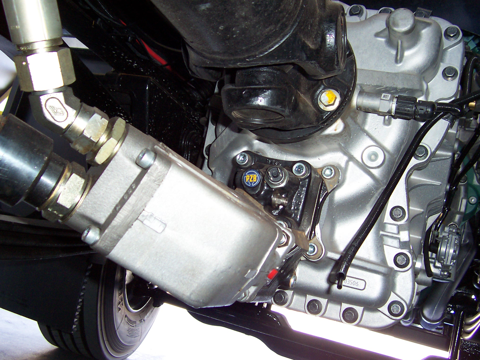 A hydraulic power take-off (PTO) mounted on a truck gearbox